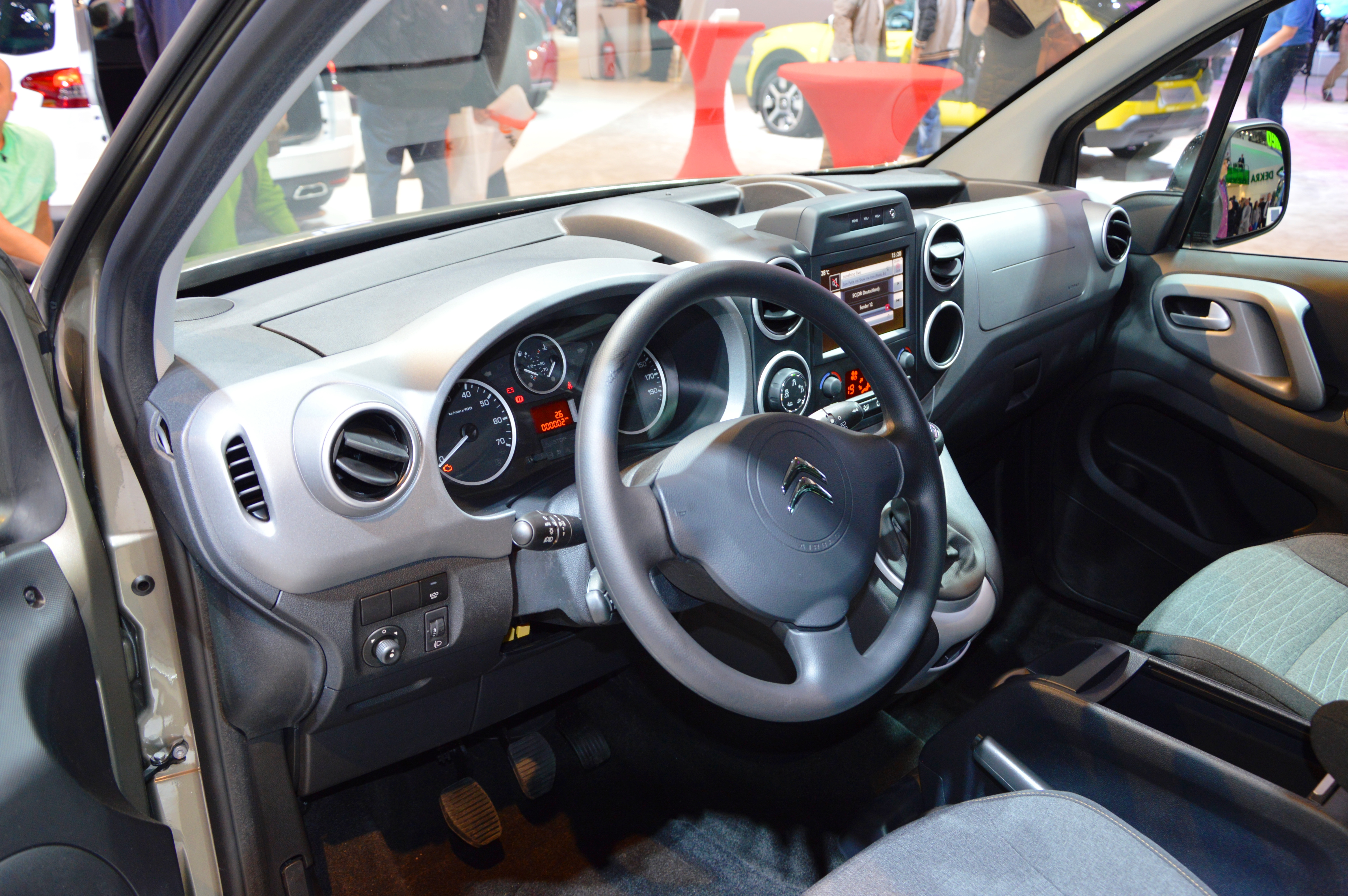 Cockpit of Citroën Berlingo II. Photo taken at exhibition IAA 2015 in Frankfurt, Germany.